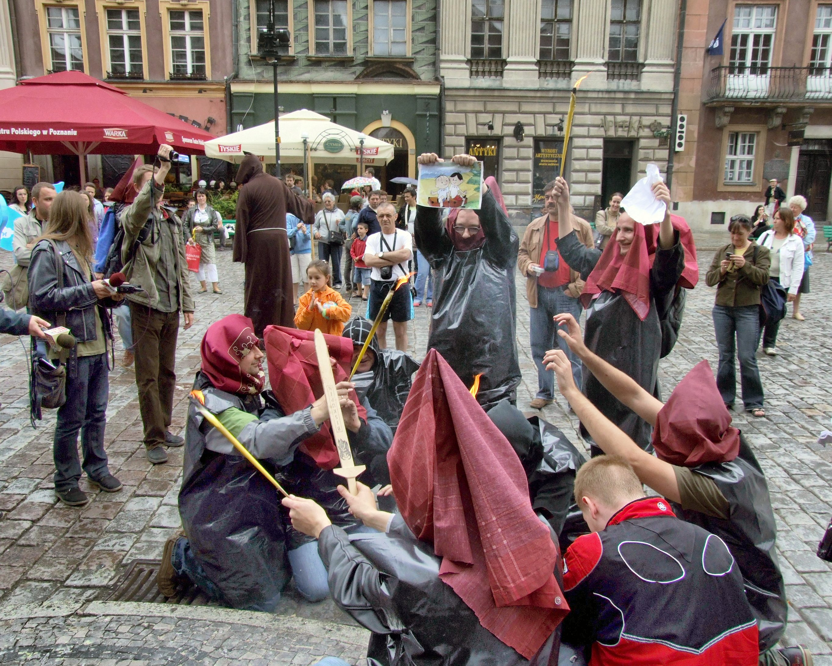 Polish political group "Naszość" during their performance